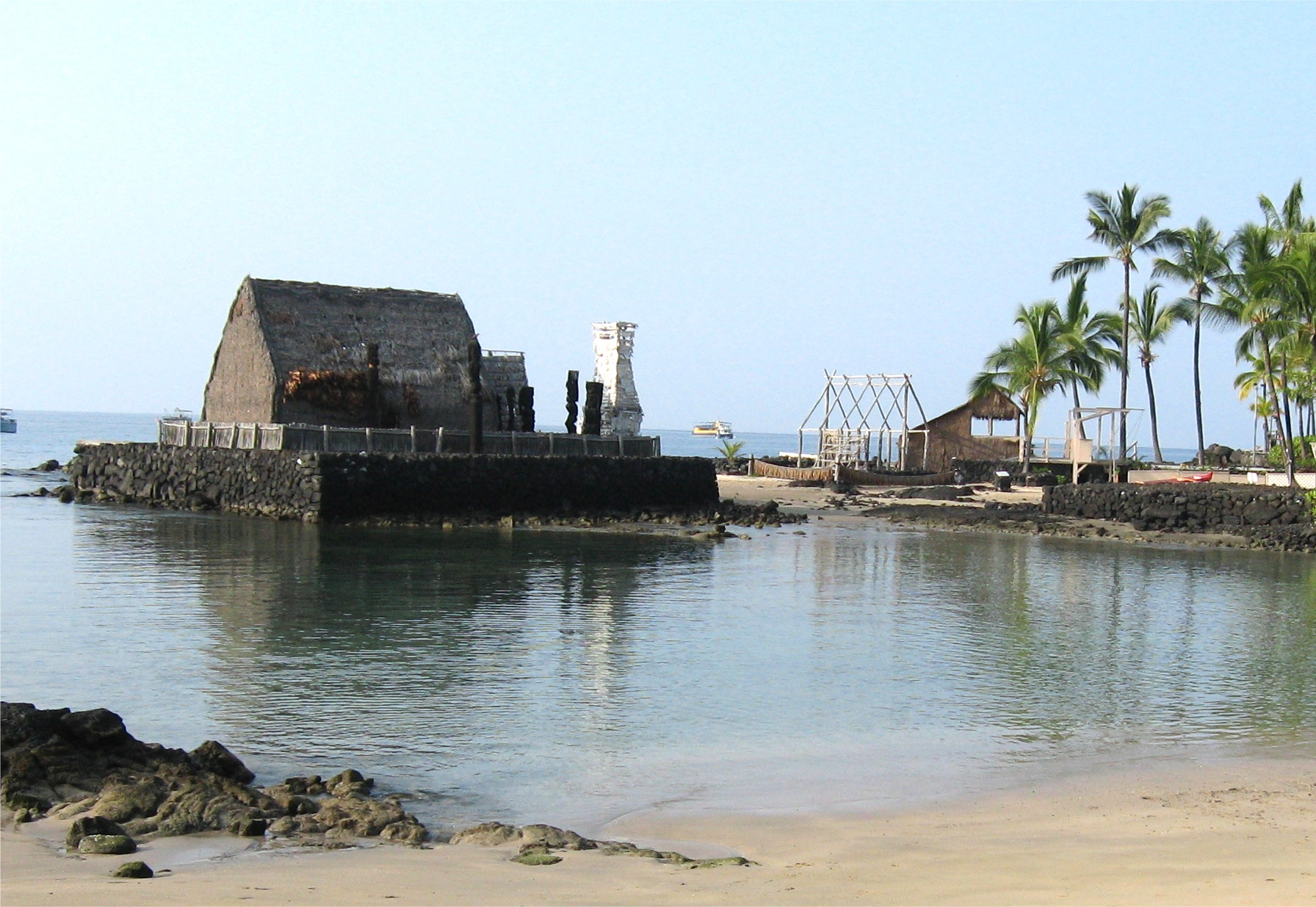 The restored Ahu'ena Heiau, personal temple of Kamehameha I, at Kailua-Kona, Hawaii.